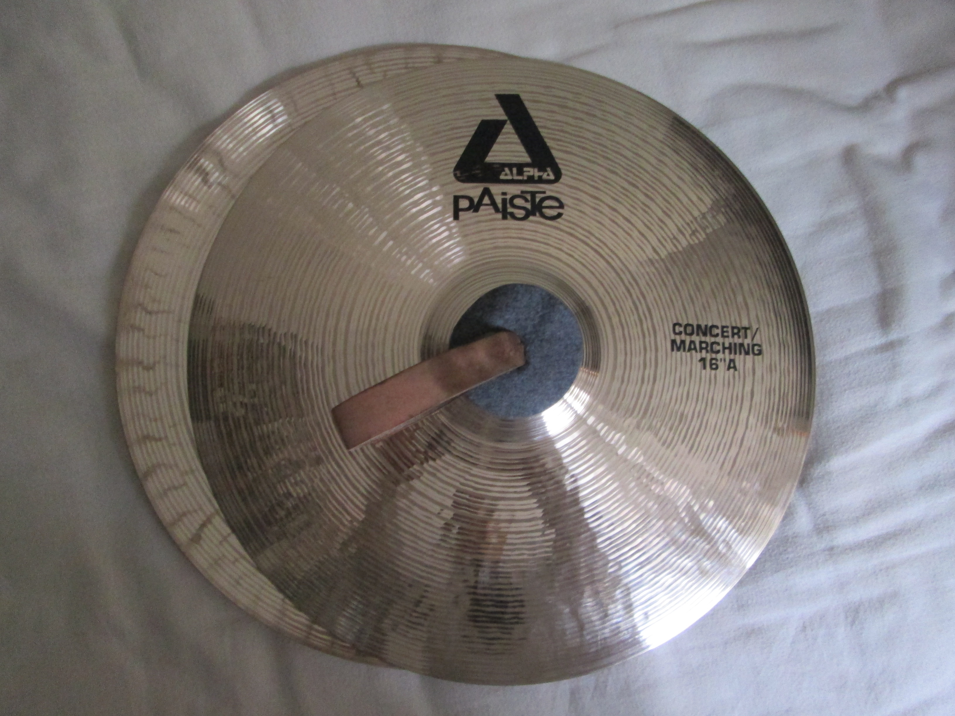 Two clash cymbals made by Paiste.